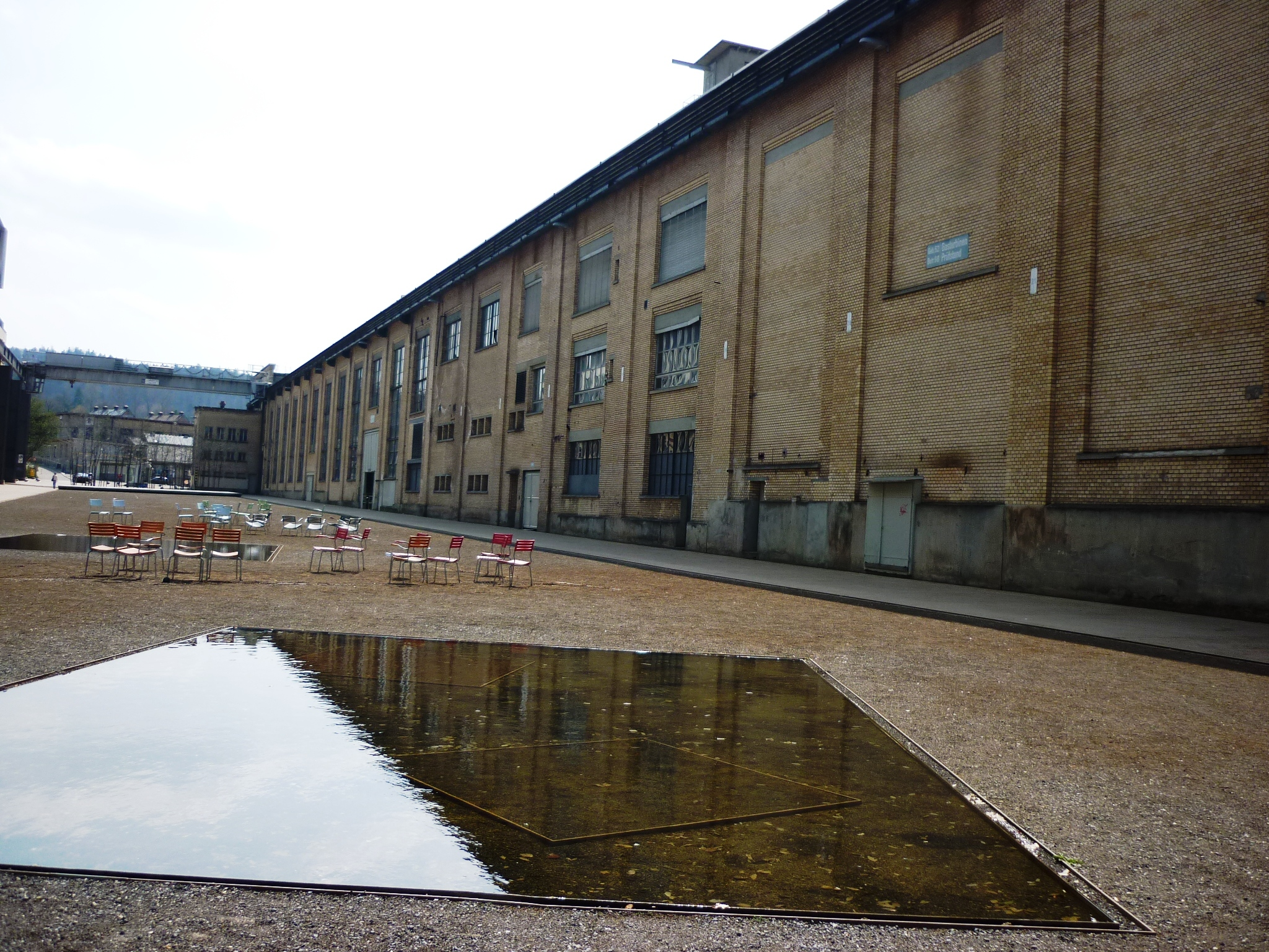 Sulzer Area, Winterthur ZH, Switzerland